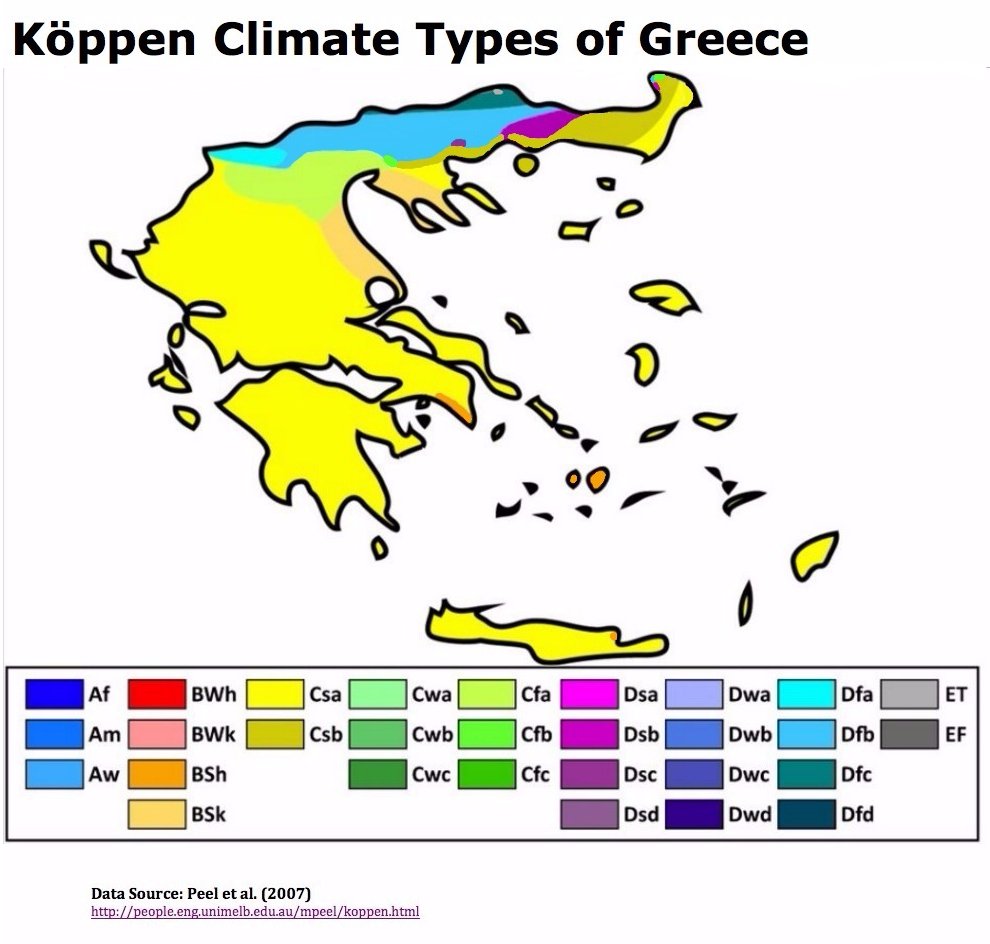 Greece's Köppen Climate Types Peel et al. (2007)